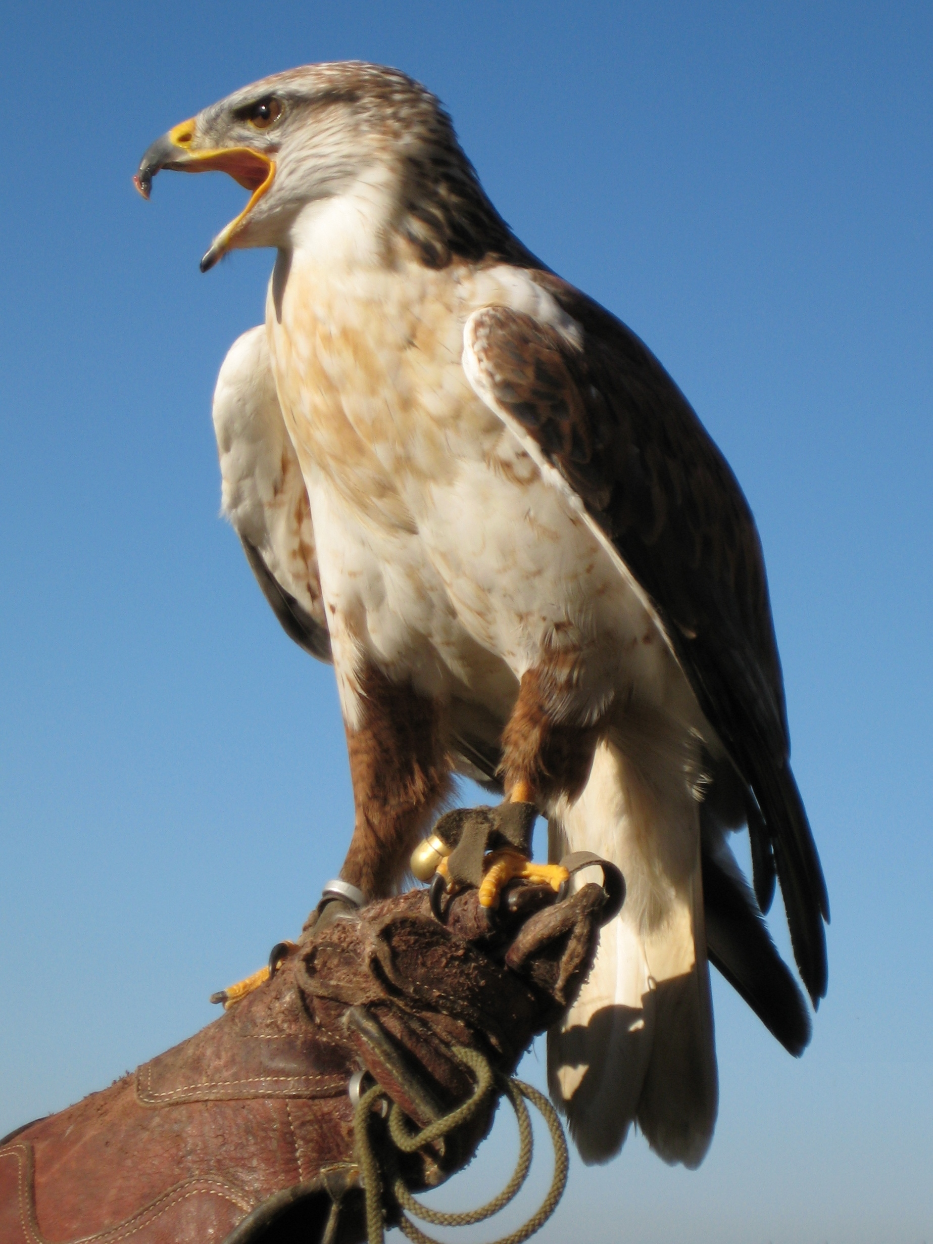 Ferruginous Hawk (Buteo regalis), Falconry at Obernberg (Austria)